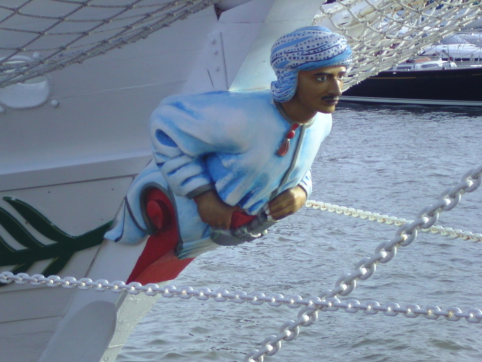 The figurehead of the Omani sailing ship Shabab Oman